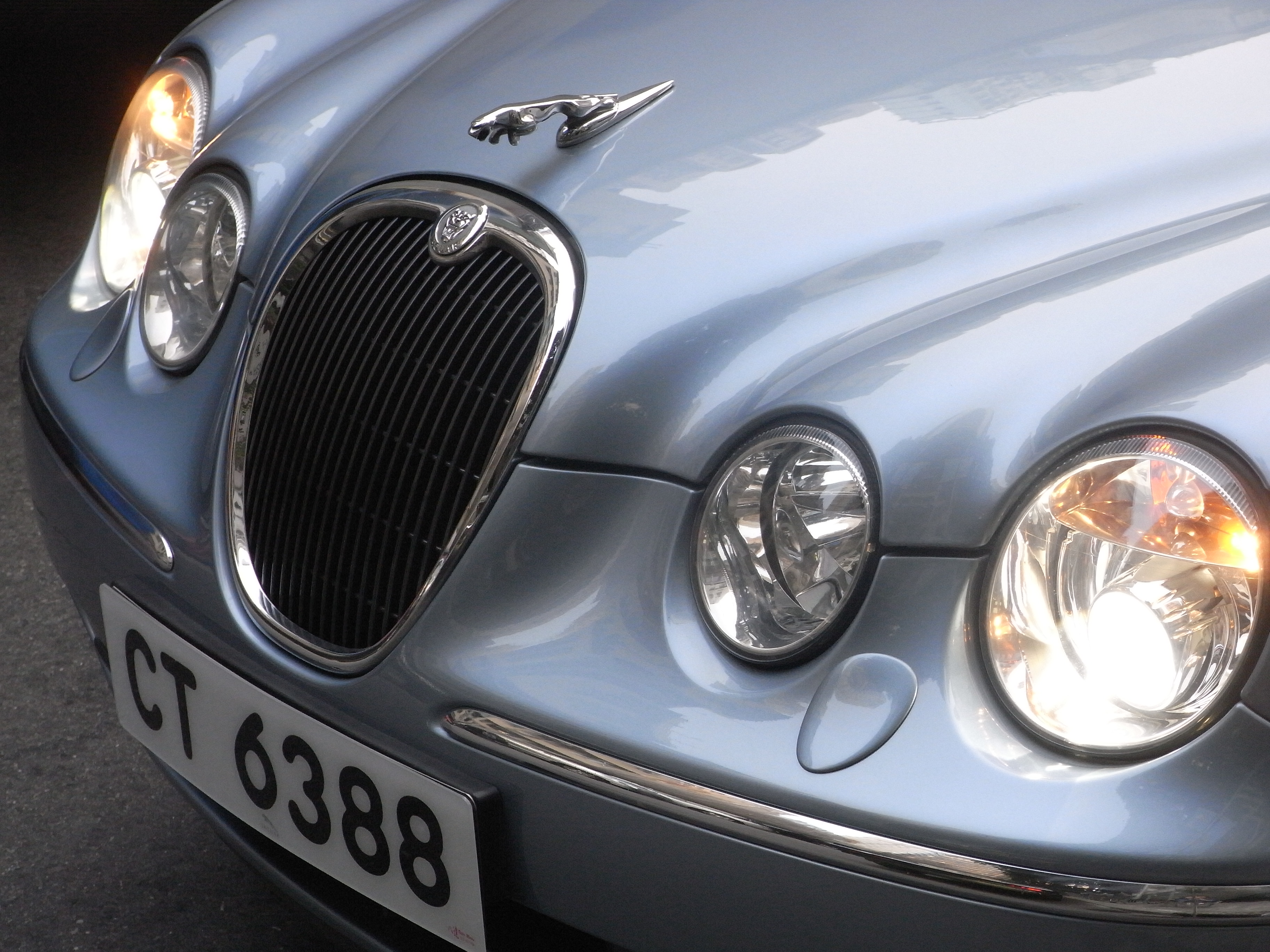 上環 樂古道 積架